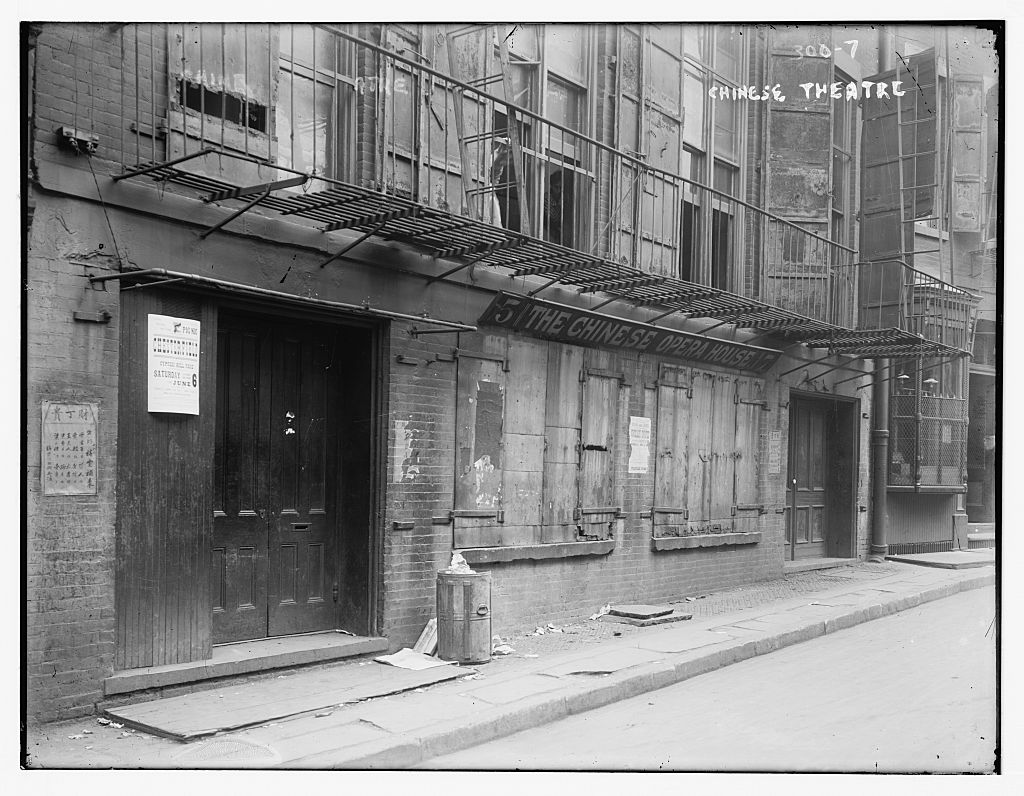 Photograph of Chinese theater, Doyers Street, Manhattan, Bain News Service